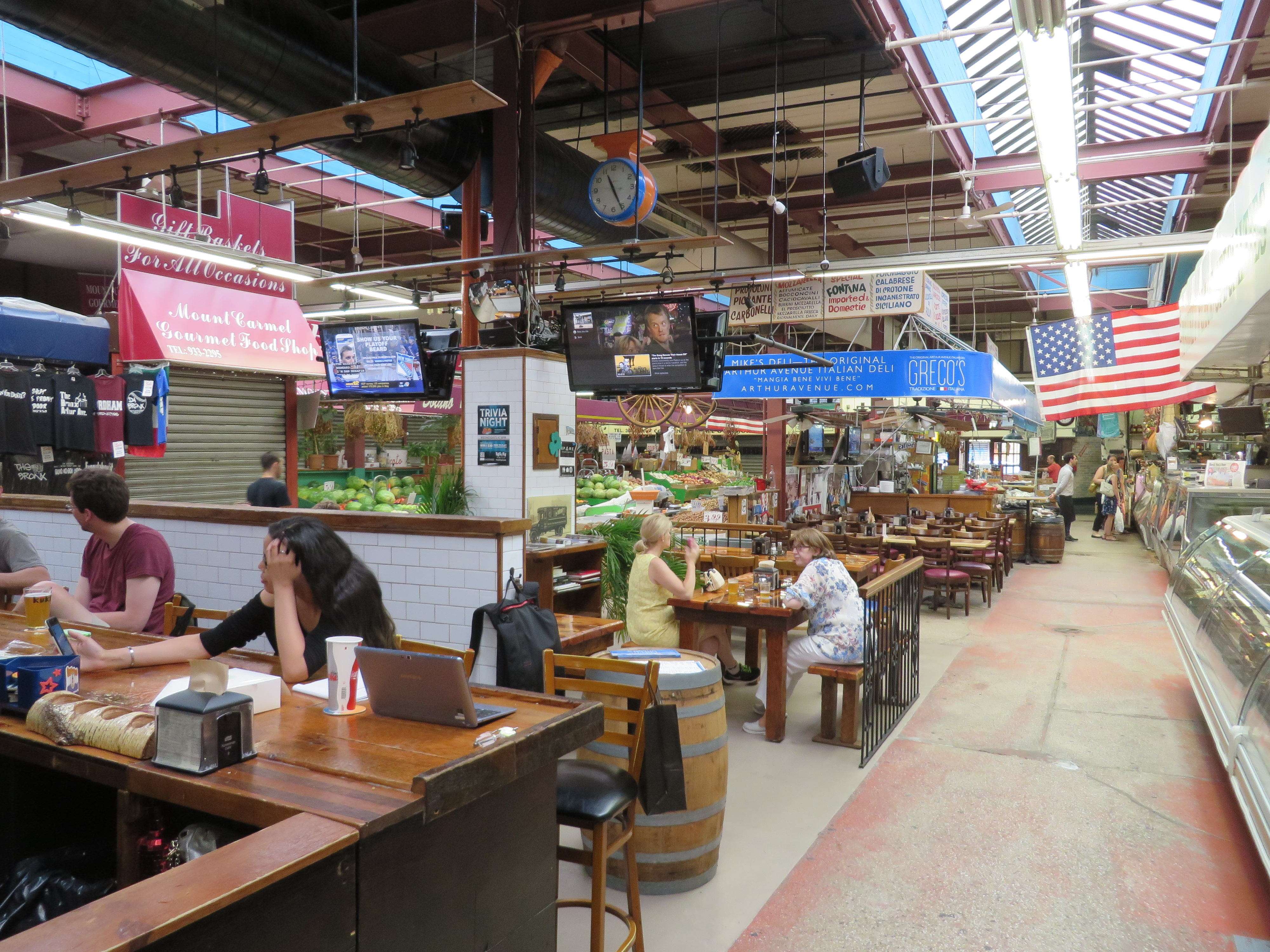 Arthur Avenue Retail Market, 2344 Arthur Avenue, Bronx, New York. This Italian market is in the heart of Little Italy in the Bronx.